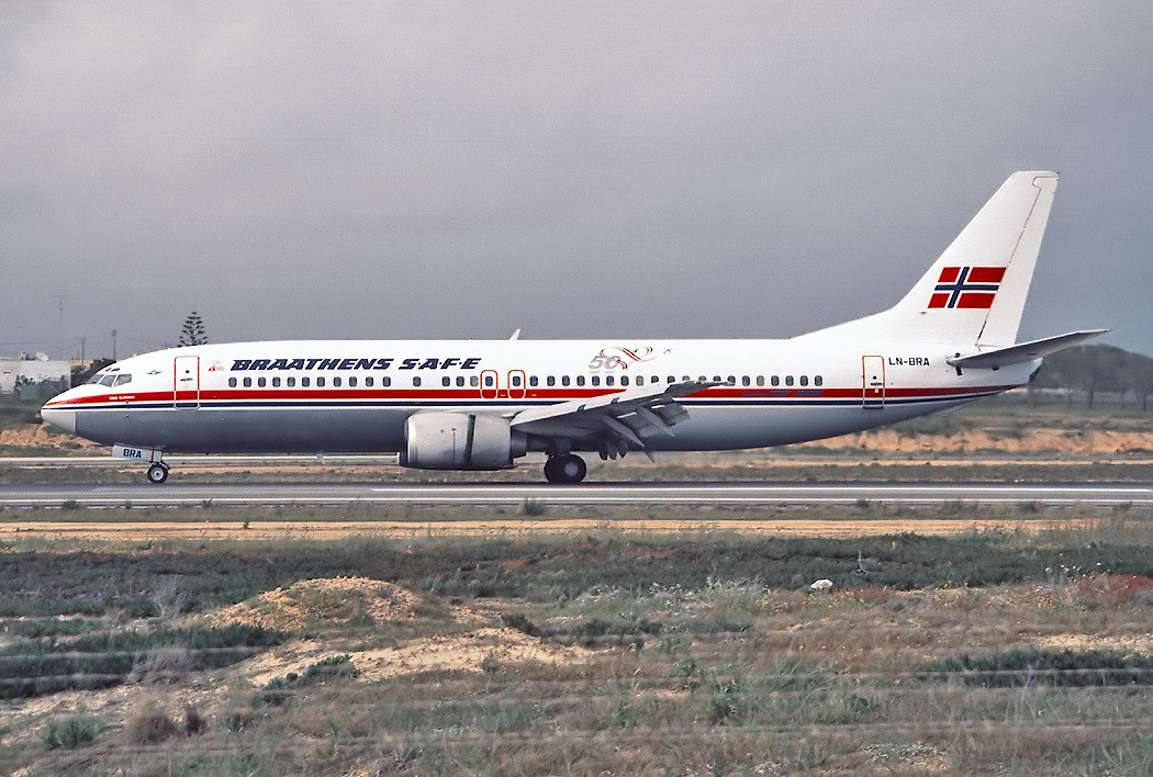 Braathens SAFE Boeing 737-405 LN-BRA at Faro Airport